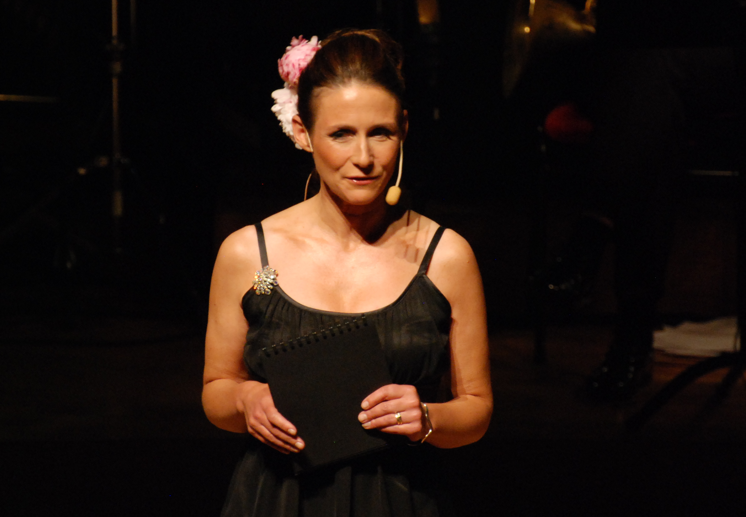 Award ceremony of the Astrid Lindgren Memorial Award 2010: Johanna Westman